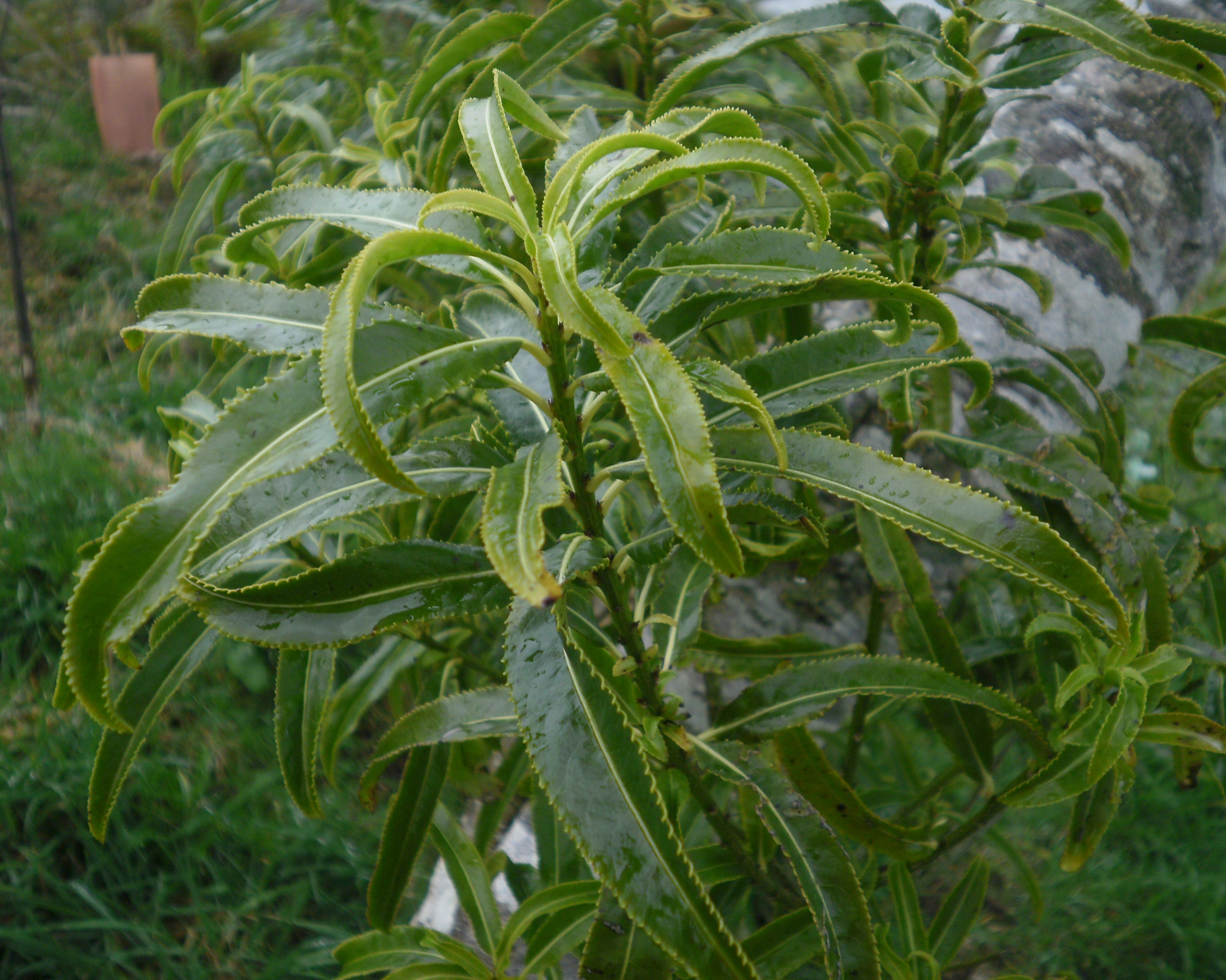 Melicytus lanceolata, Narrow-leaved mahoe, foliage in Waiu wetland, Wainuiomata, Wellington, New Zealand.